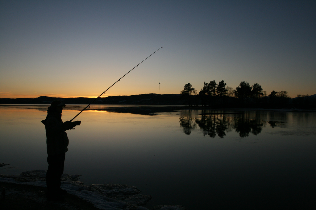 Fishing in Rauland Norway